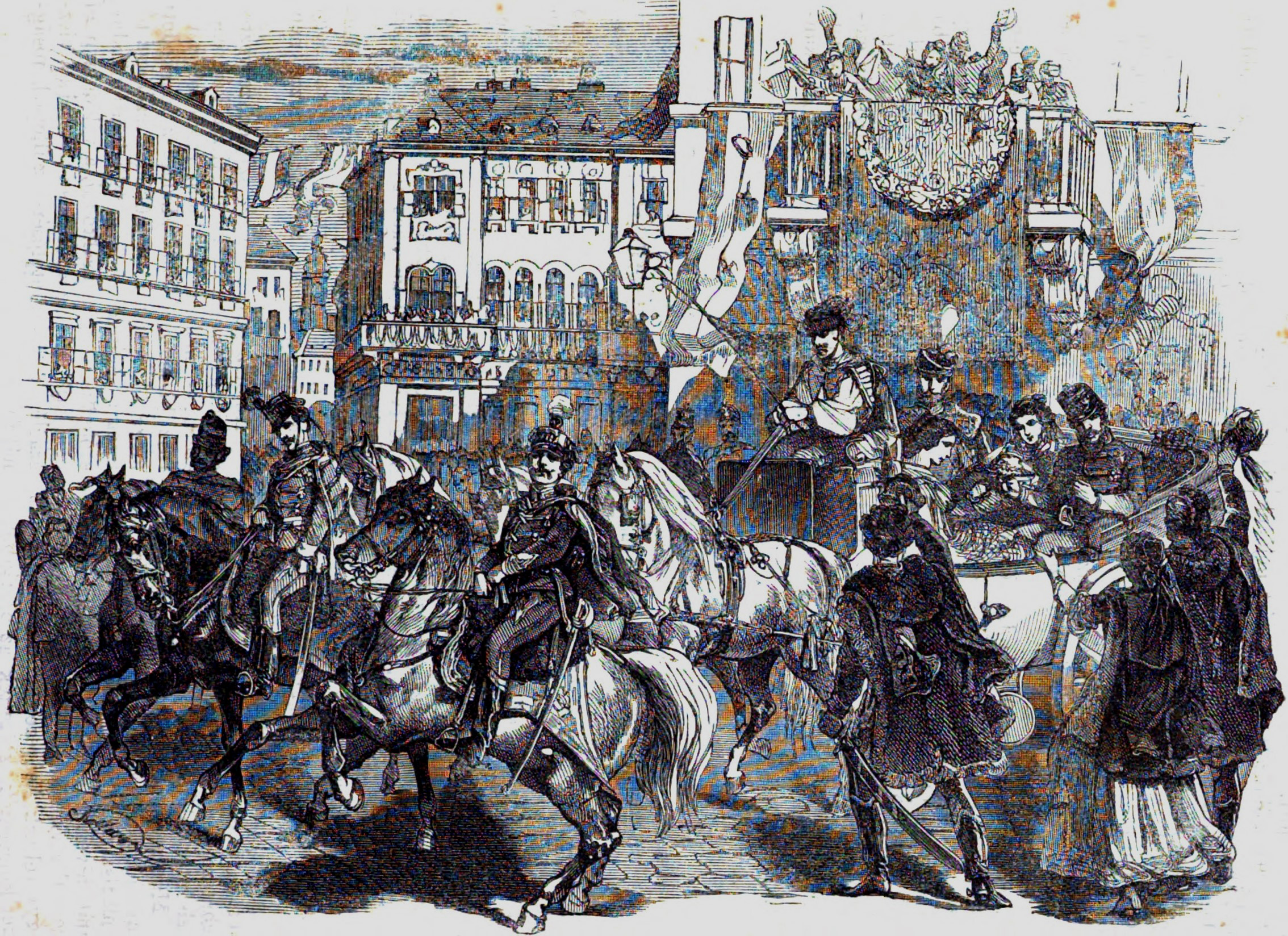 Kossuth's and his families welcoming in the liberated Buda and Pest